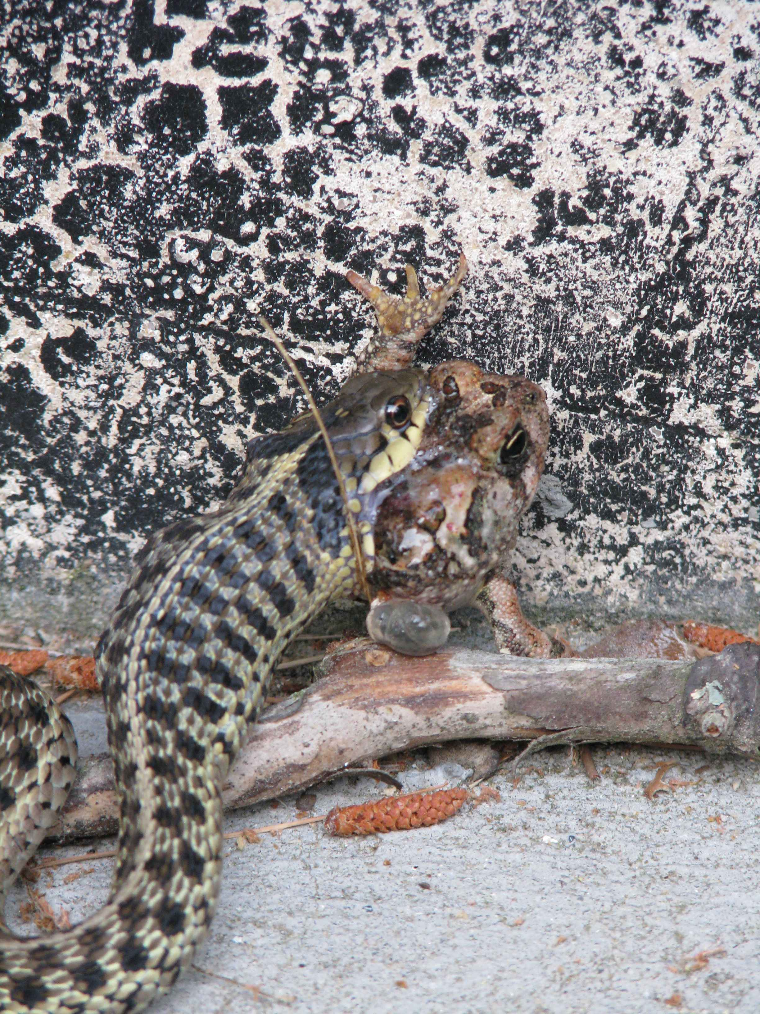 Image title: Garter snake thamnophis sirtalis eating a toad Image from Public domain images website